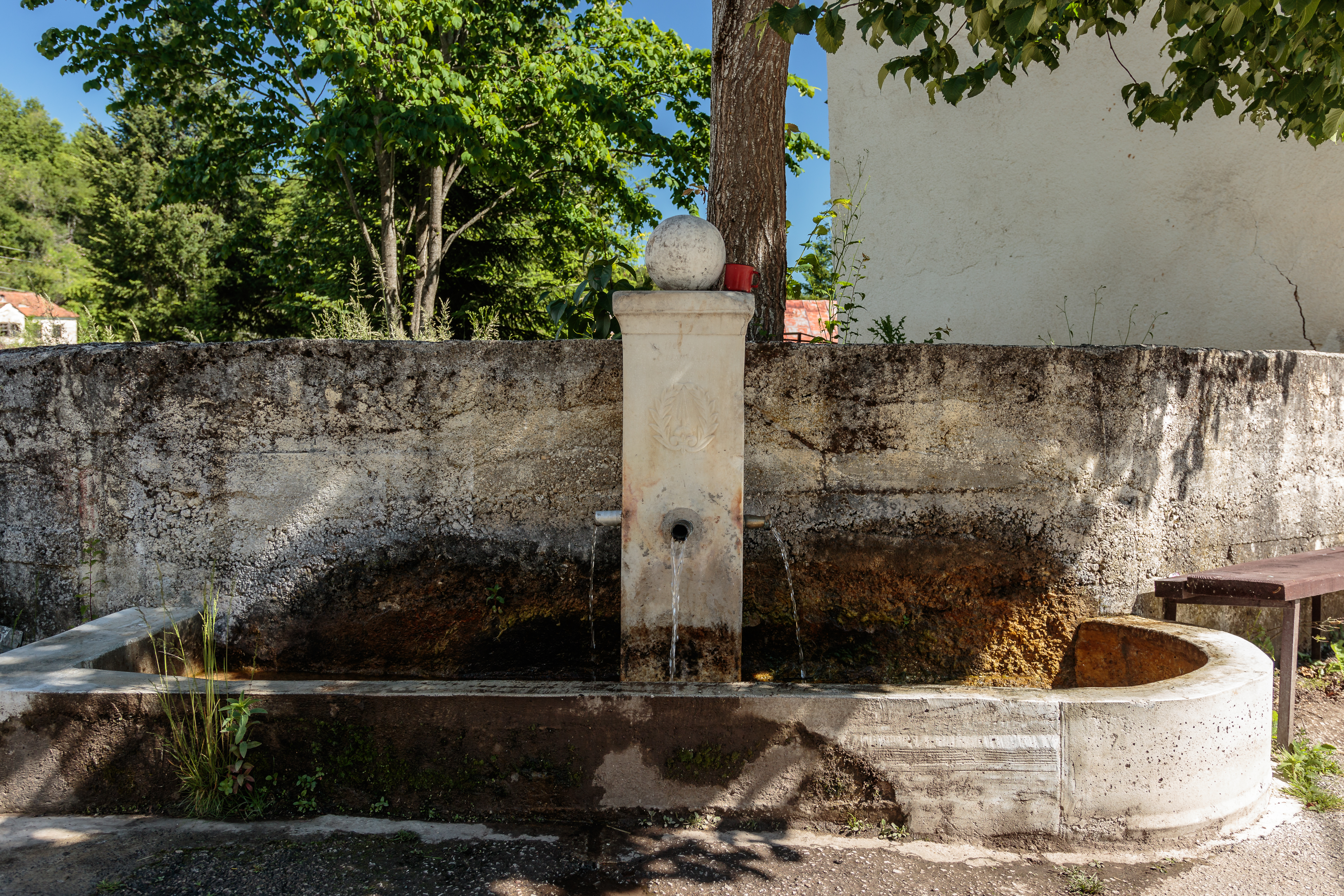 Village pump in Velmevci